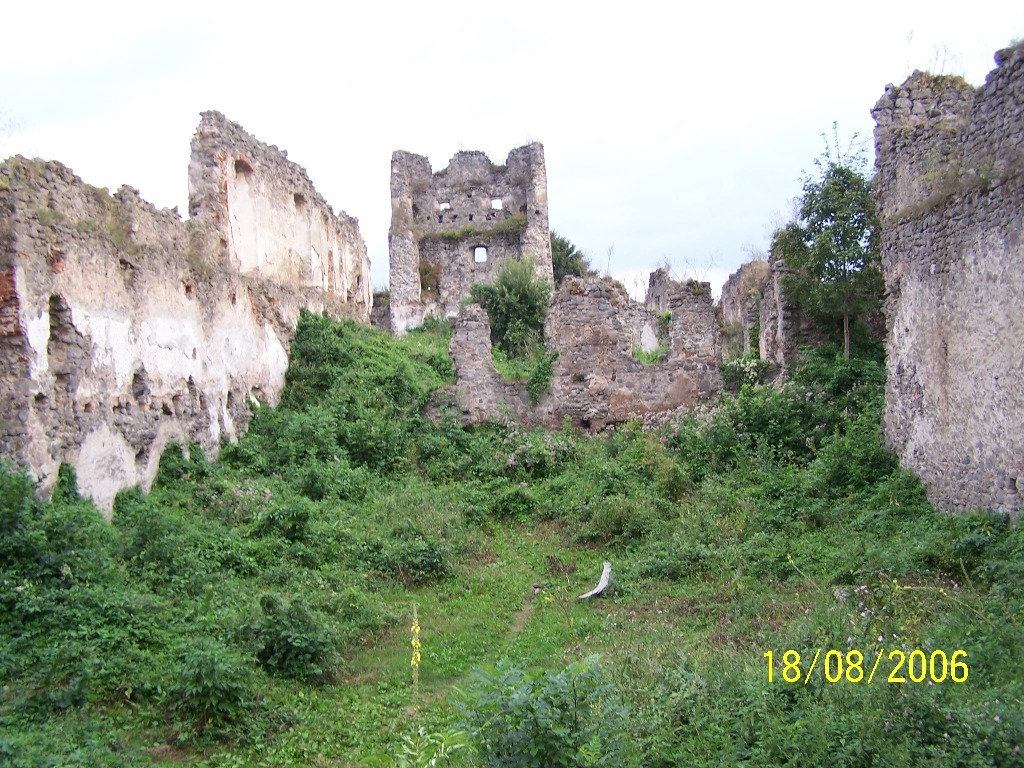 Čabraď Castle in Krupina District, Banská Bystrica Region of Slovakia.